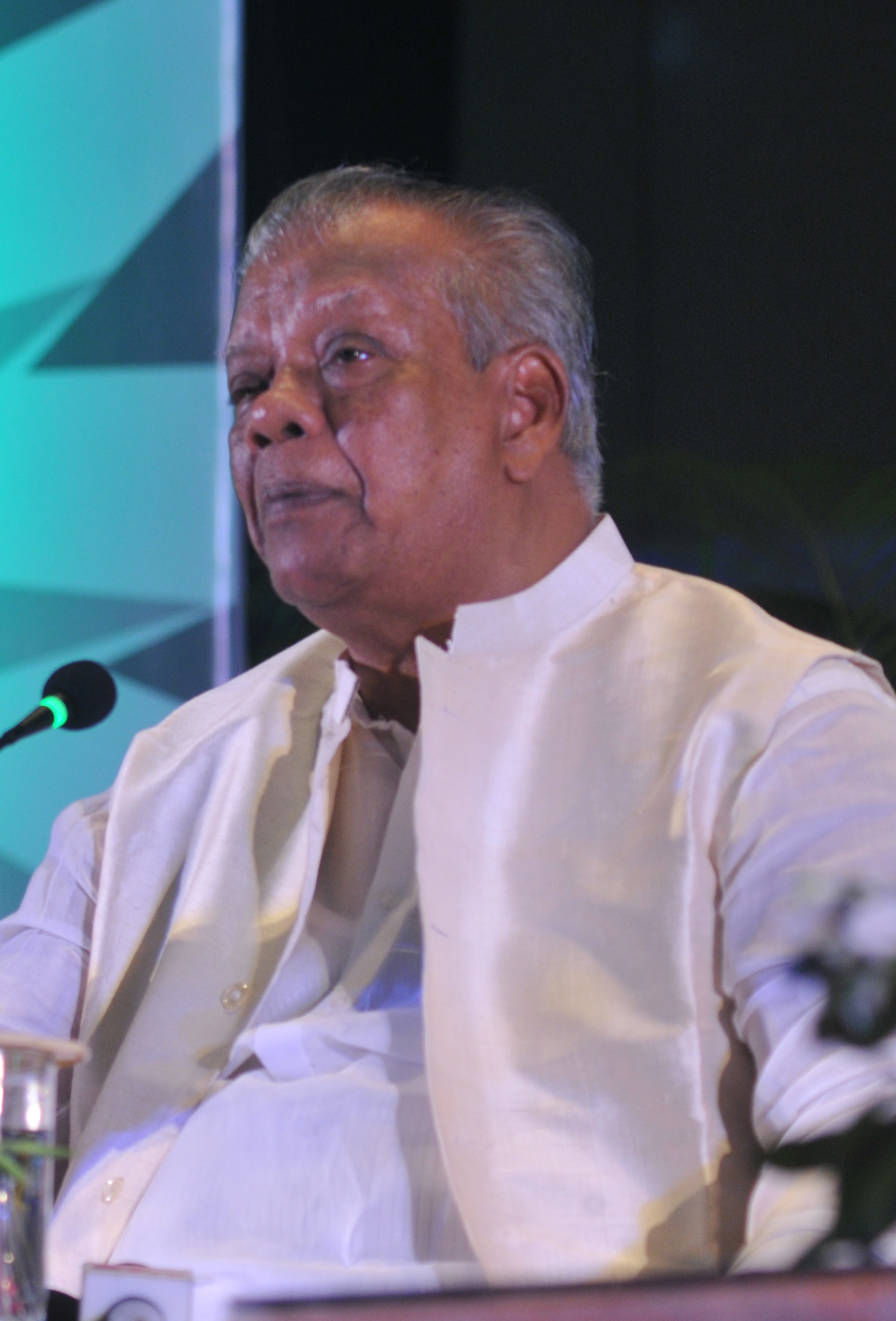 Amir Hossain Amu